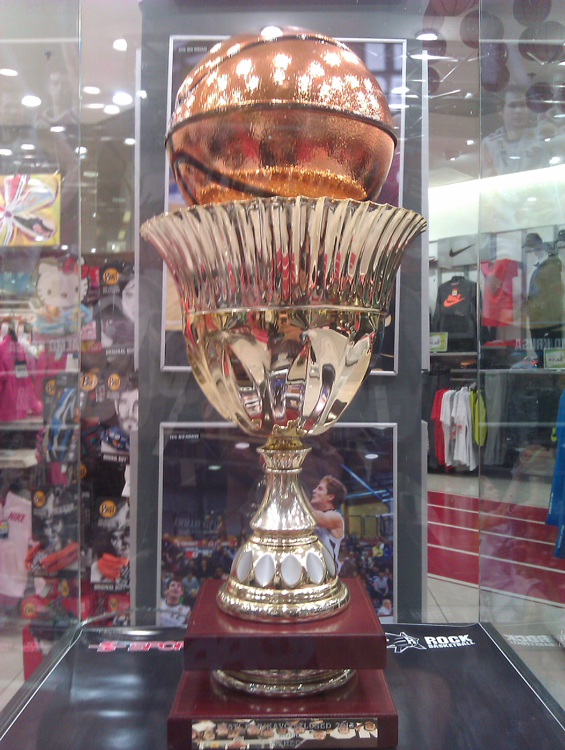 The Estonian Basketball Cup trophy. Estonian Basketball Cup